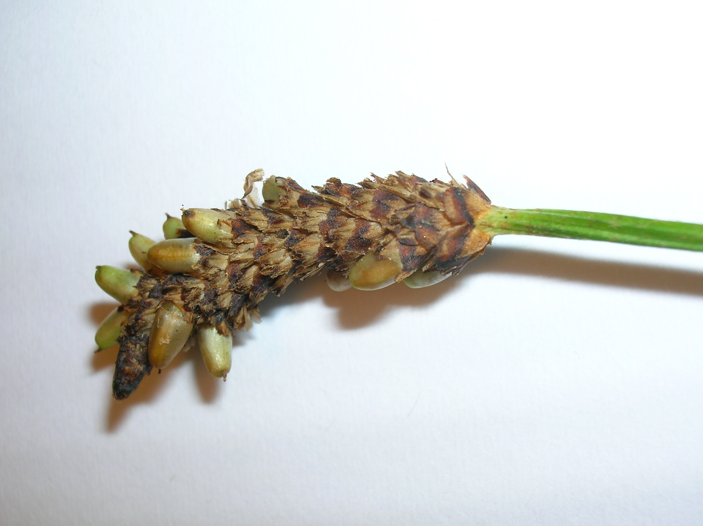 Galls on the head of Plantago lanceolata. Auchenmade. North Ayrshire. Scotland